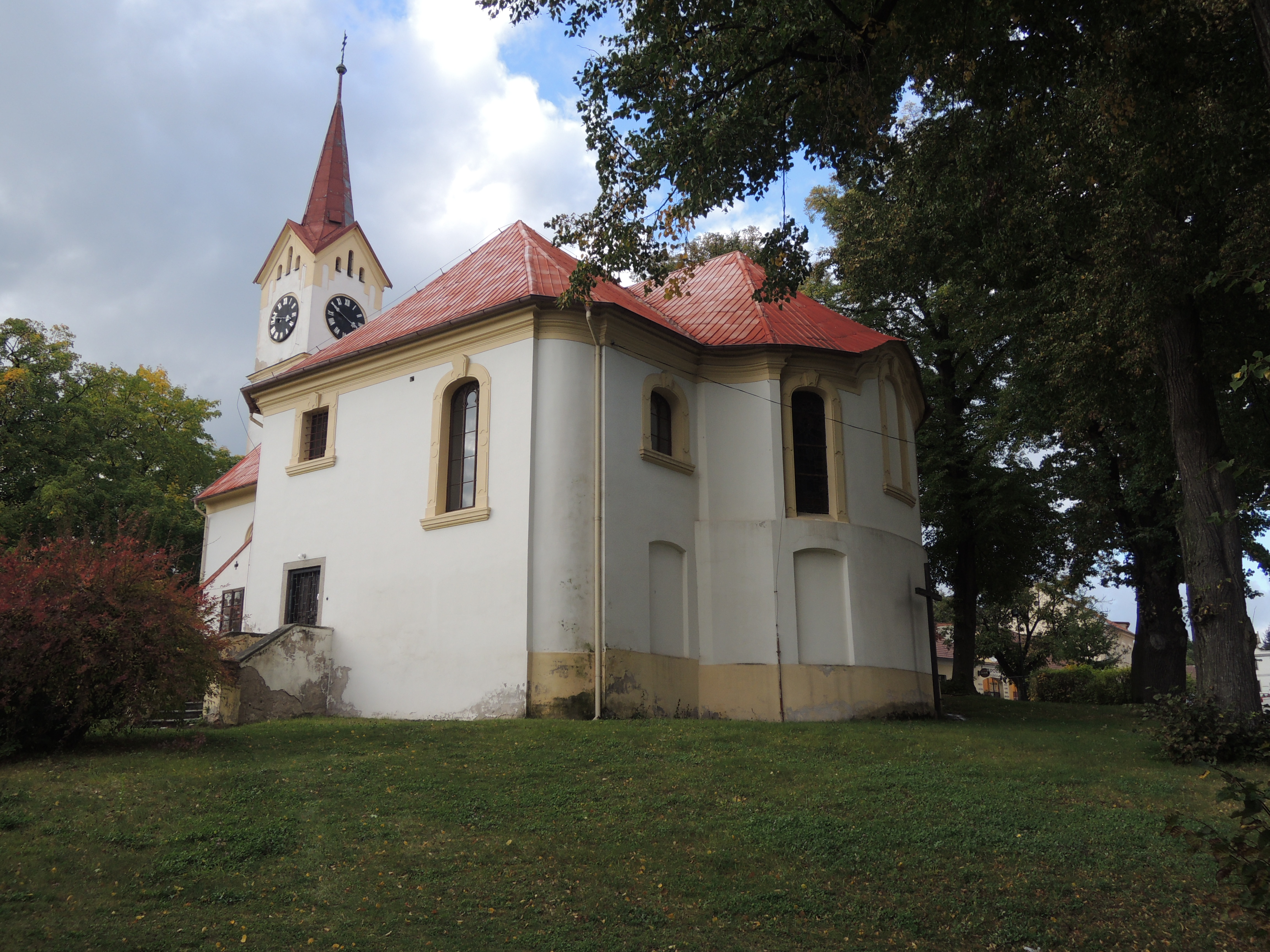 Pyšely a town i Benešov District, Czech Republic, Church of the Exaltation of the Holy Cross.